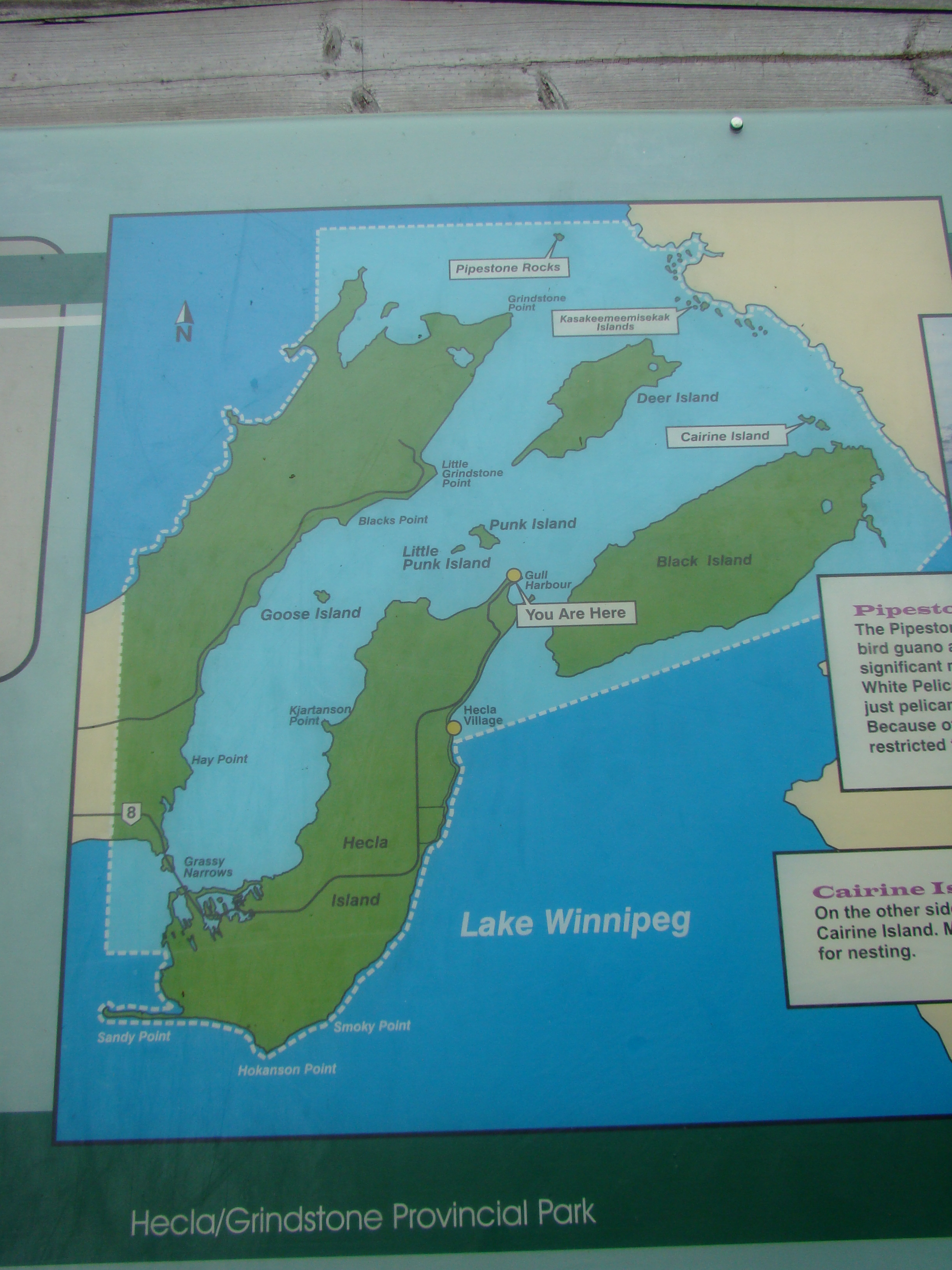 Hecla Island and Provincial Park in Lake Winnipeg Manitoba